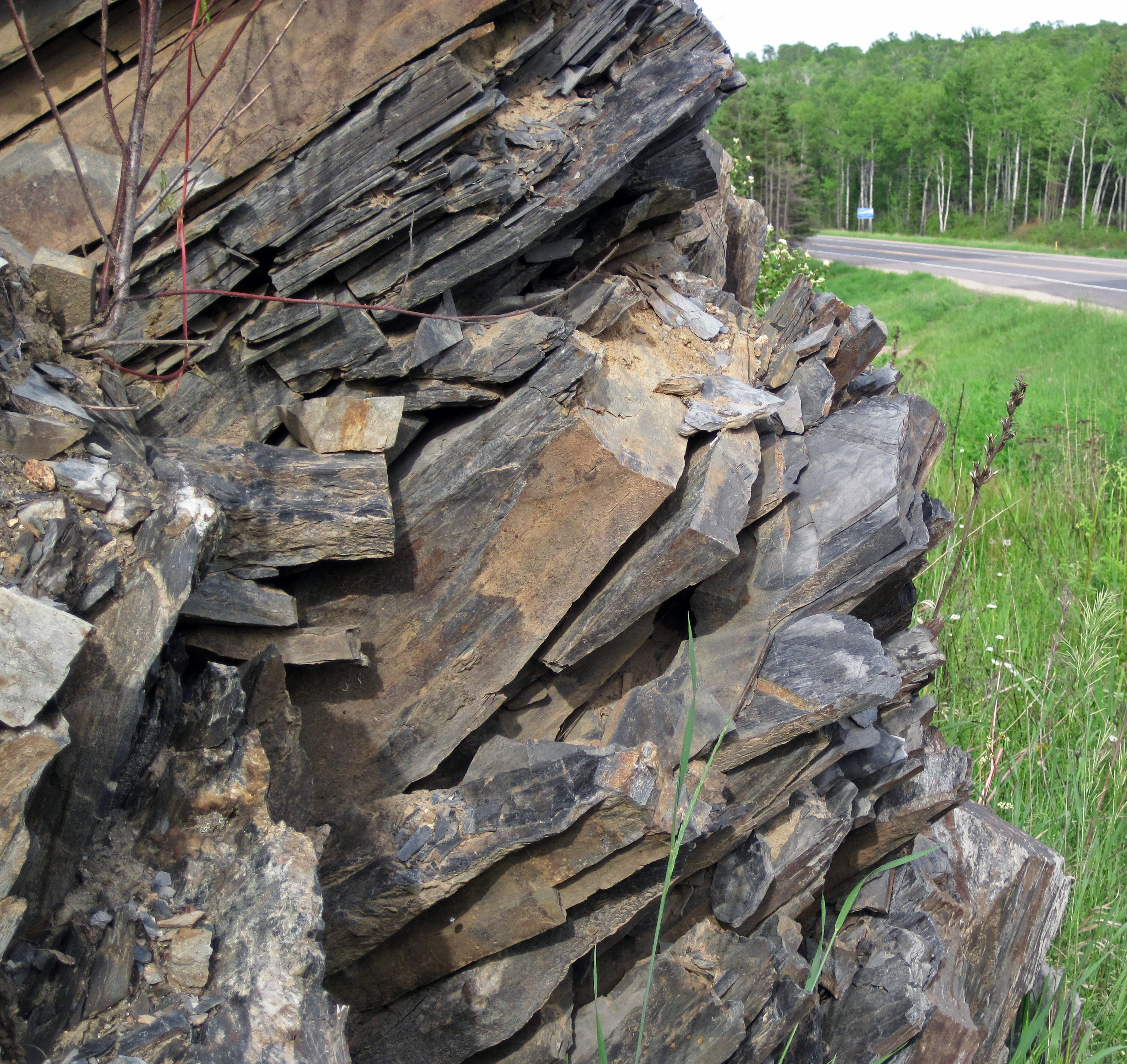 Slate in the Precambrian of Minnesota, USA. This is an outcrop of slate, a foliated metamorphic rock composed of clay minerals. Slate is the product of low-grade metamorphism of shale. The original shale bedding is visible in slate samples at this locality. Stratigraphy: Knife Lake Formation, metamorphism at 2.7 Ga (Neoarchean) Locality: roadcut on the northern side of Rt. 135 at the Gilbert city limits sign, just west of the town of Gilbert & southeast of the town of Virginia, central St. Louis County, northeastern Minnesota, USA (47° 29' 34.17" North latitude, 92° 29' 24.27" West longitude)